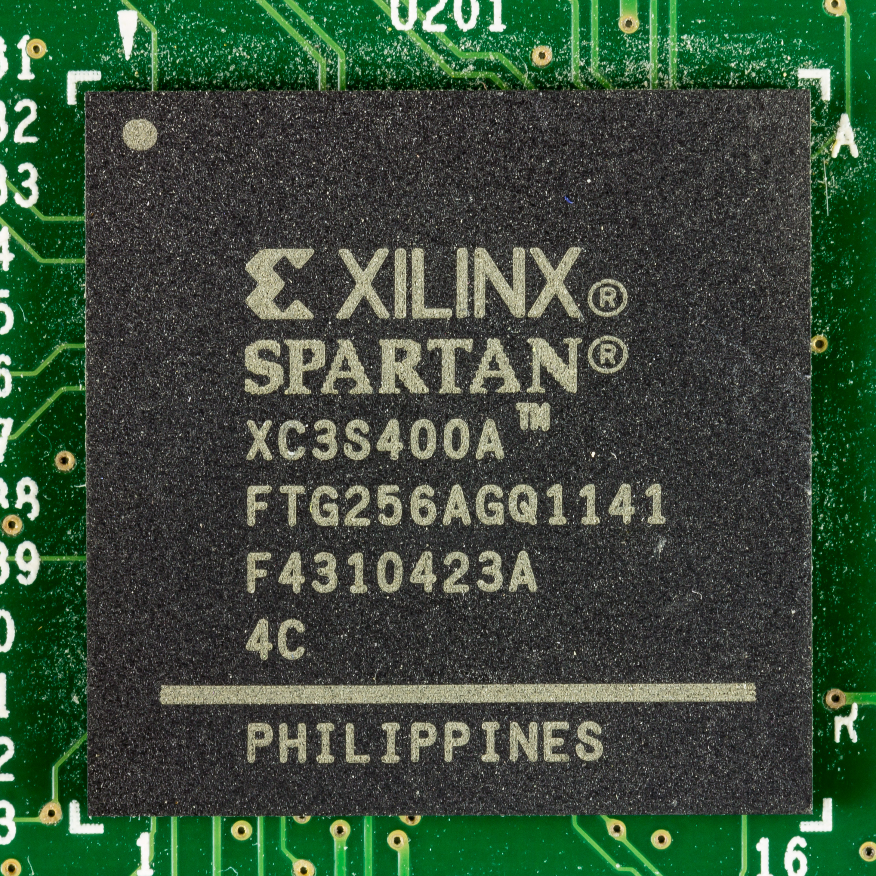 Xerox ColorQube 8570 - Main controller - Xilinx Spartan XC3S400A - Spartan-3A FPGA Family.